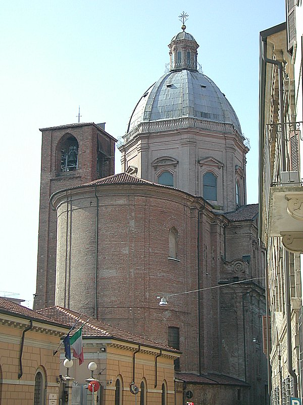 The church of San Barnabà in Mantua. Source: photo uploaded by User:RicciSpeziari. Photographer: Riccardo Speziari